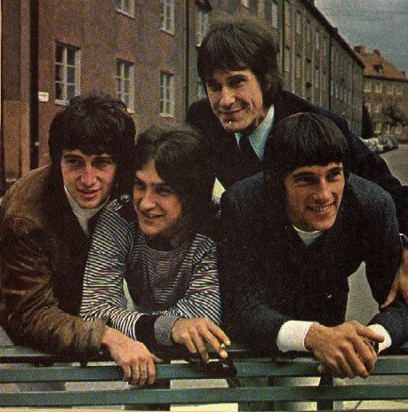 A promotional photo of British rock group The Kinks, taken at Västeråsgatan/S:t Eriksgatan in Stockholm, Sweden, ca. 2 September 1965 (see The Kinks: All Day and All of the Night : Day-By-Day Concerts, Recordings and Broadcasts, 1961-1996, p. 65). From left to right: Pete Quaife, Dave Davies, Ray Davies, Mick Avory (the band's lineup Feb 1964–June 1966, Nov 1966–Mar 1969).